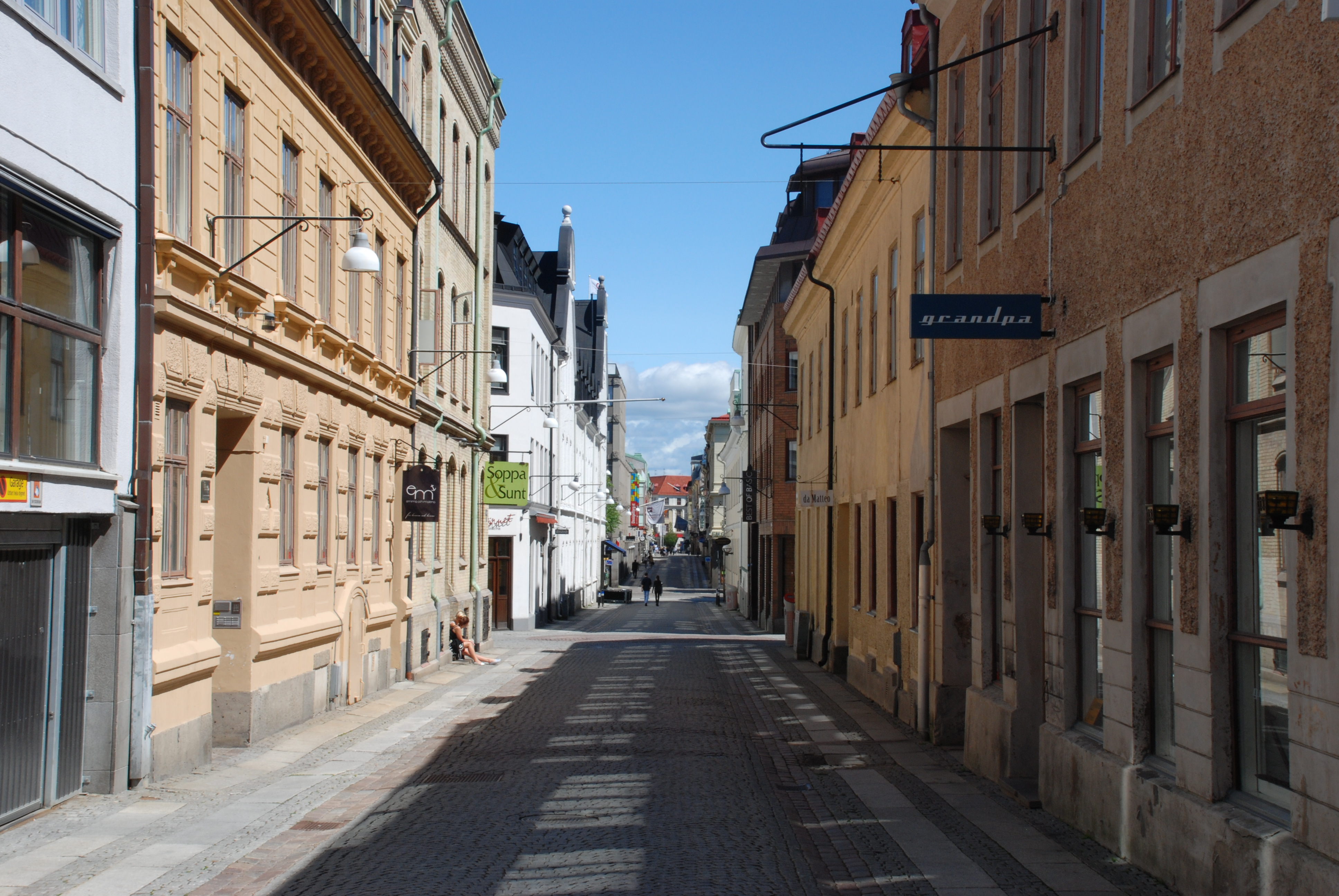 Vallgatan in city part Inom Vallgraven in Göteborg. Between Kaserntorget and Magasinsgatan.